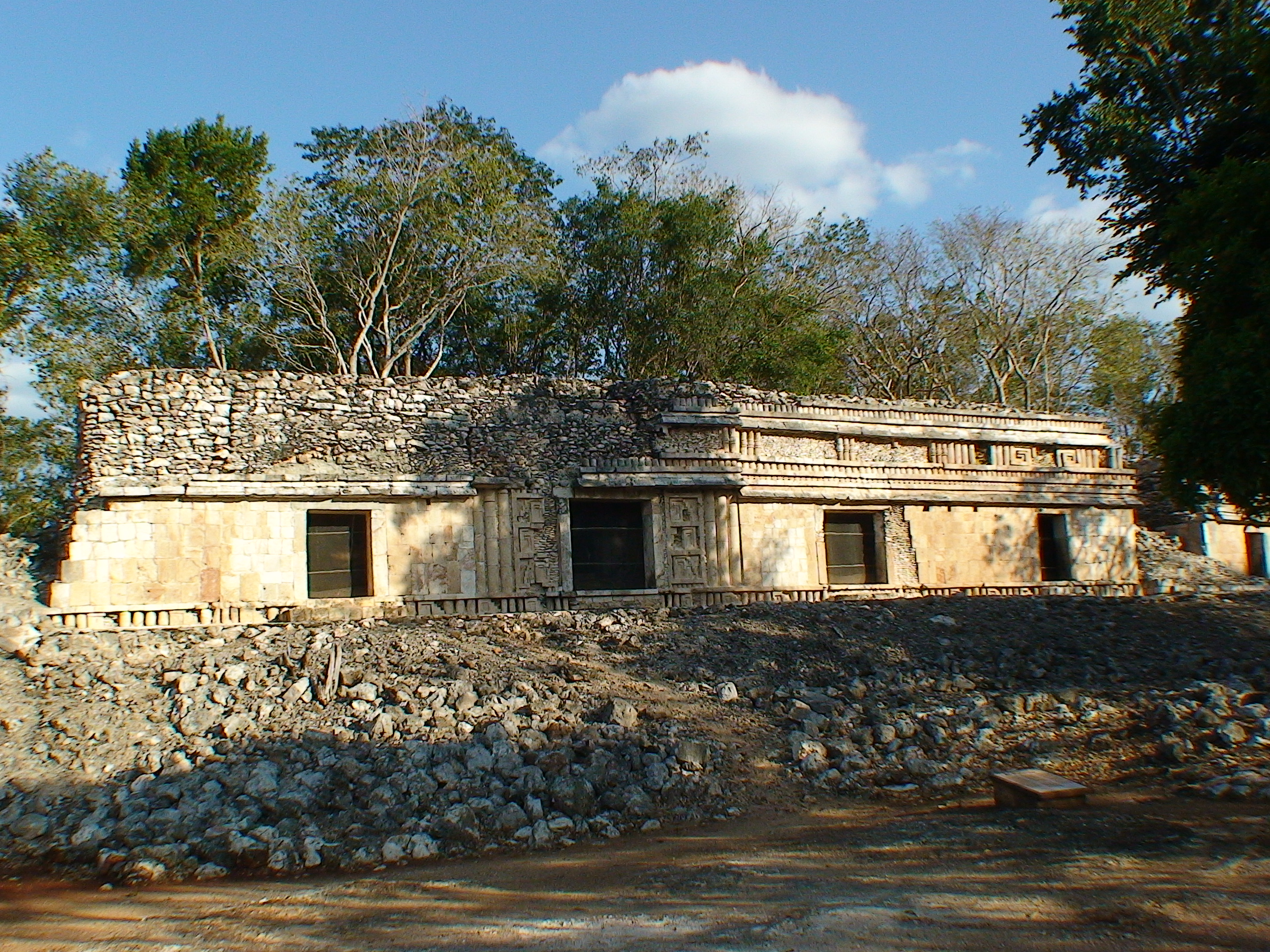 Chunhuhub, building 1, Campeche, Mexico